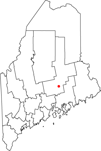 Map of the state of Maine with County Outlines, highlighting Old Town.